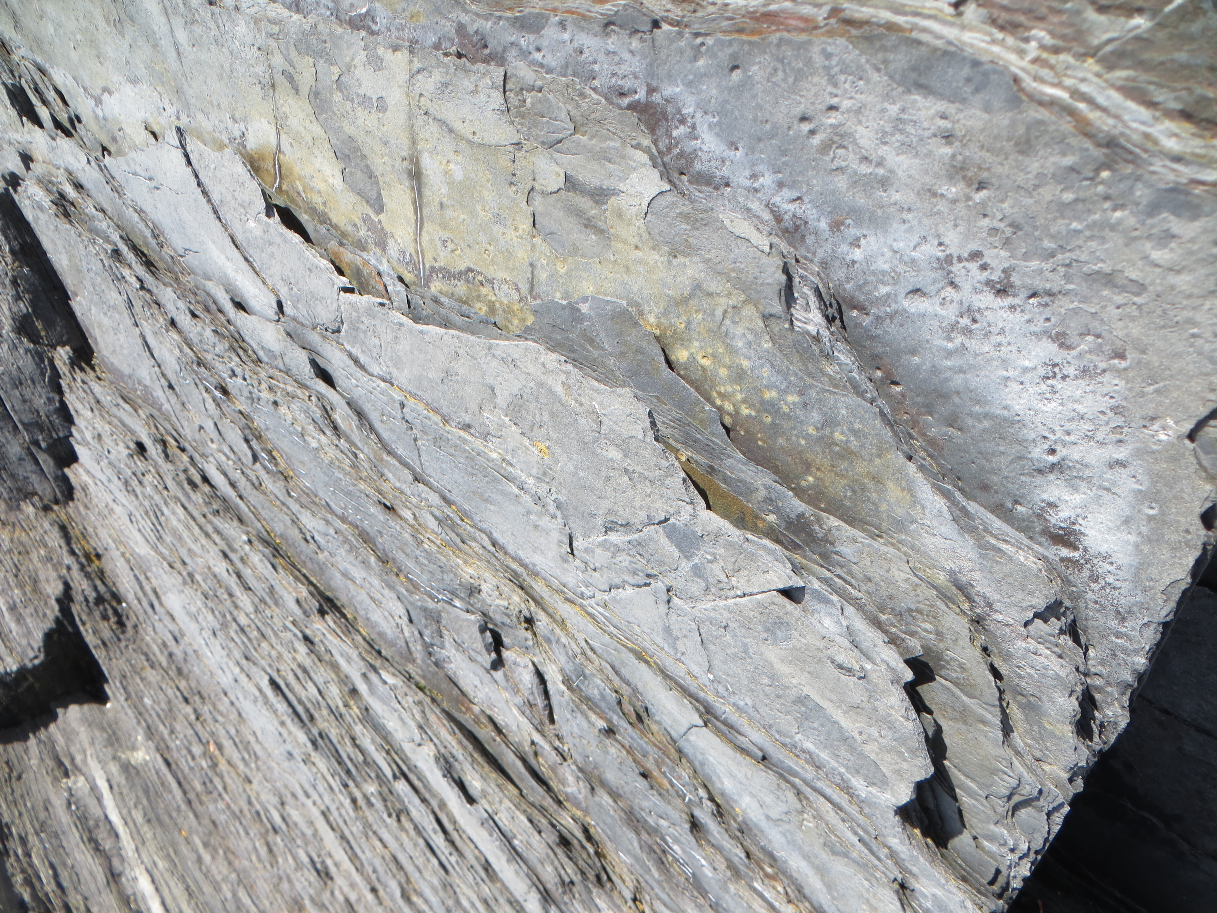 Bedding surfaces of the Fermeuse Formation near Ferryland, Newfoundland